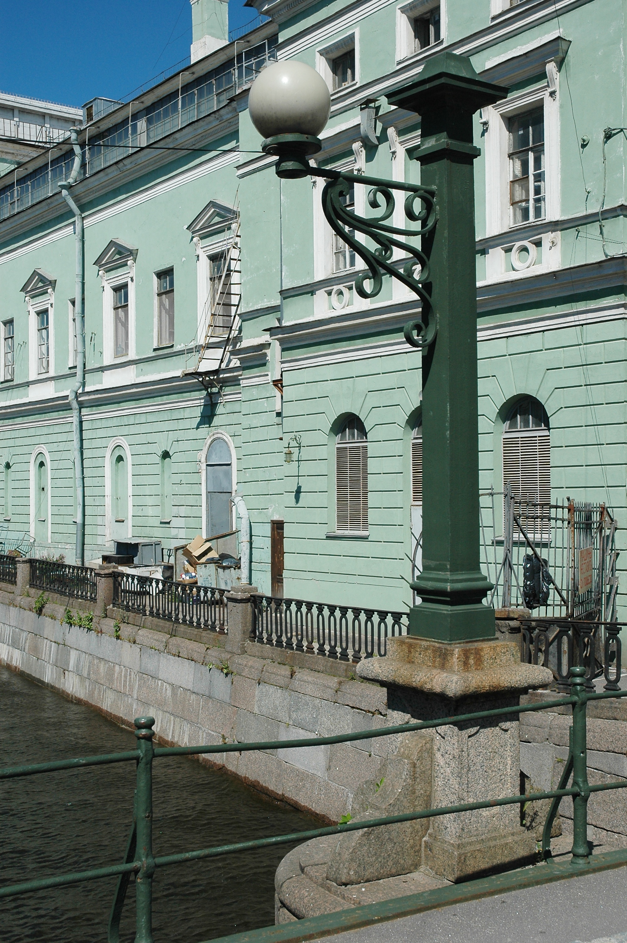 Torgovyi bridge across Kriukov canal in St Petersburg, lantern